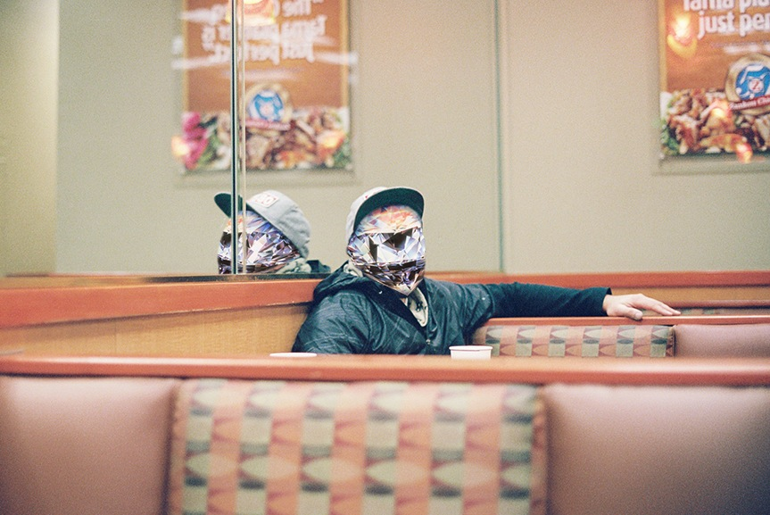 This is a portrait of artist 2wenty to be used for this wiki